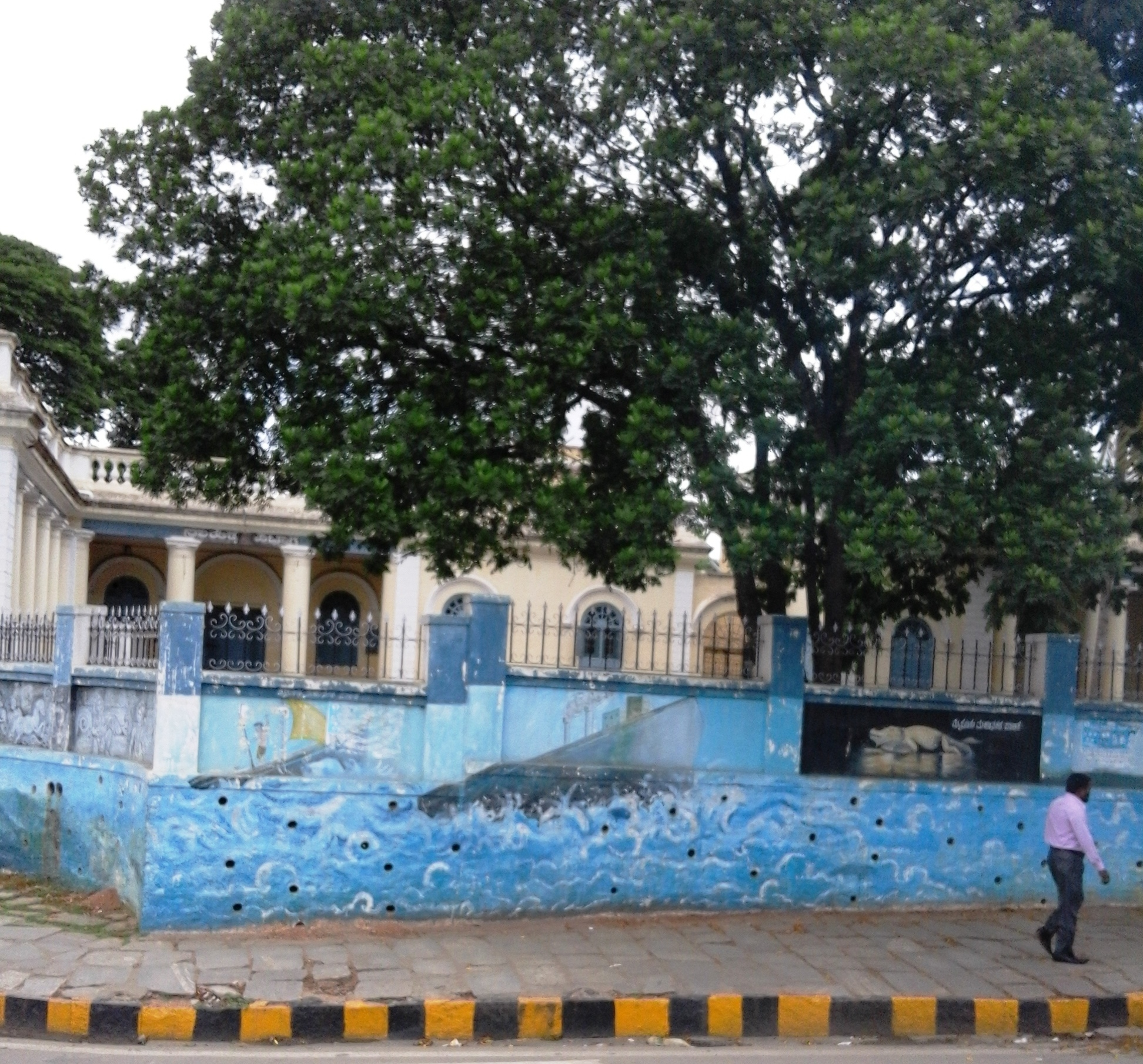 Mysore city, Mysore district, Karnataka province, India.